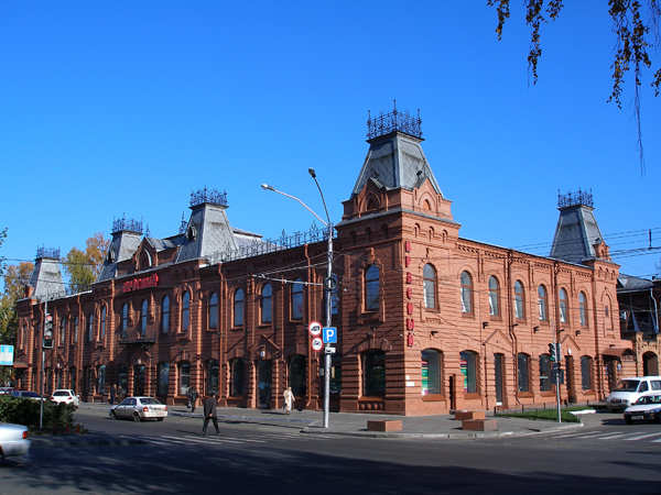 Red-shop. Barnaul